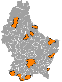 A map of communes of Luxembourg after mergers of 2006-01-01, with communes with city status highlighted.